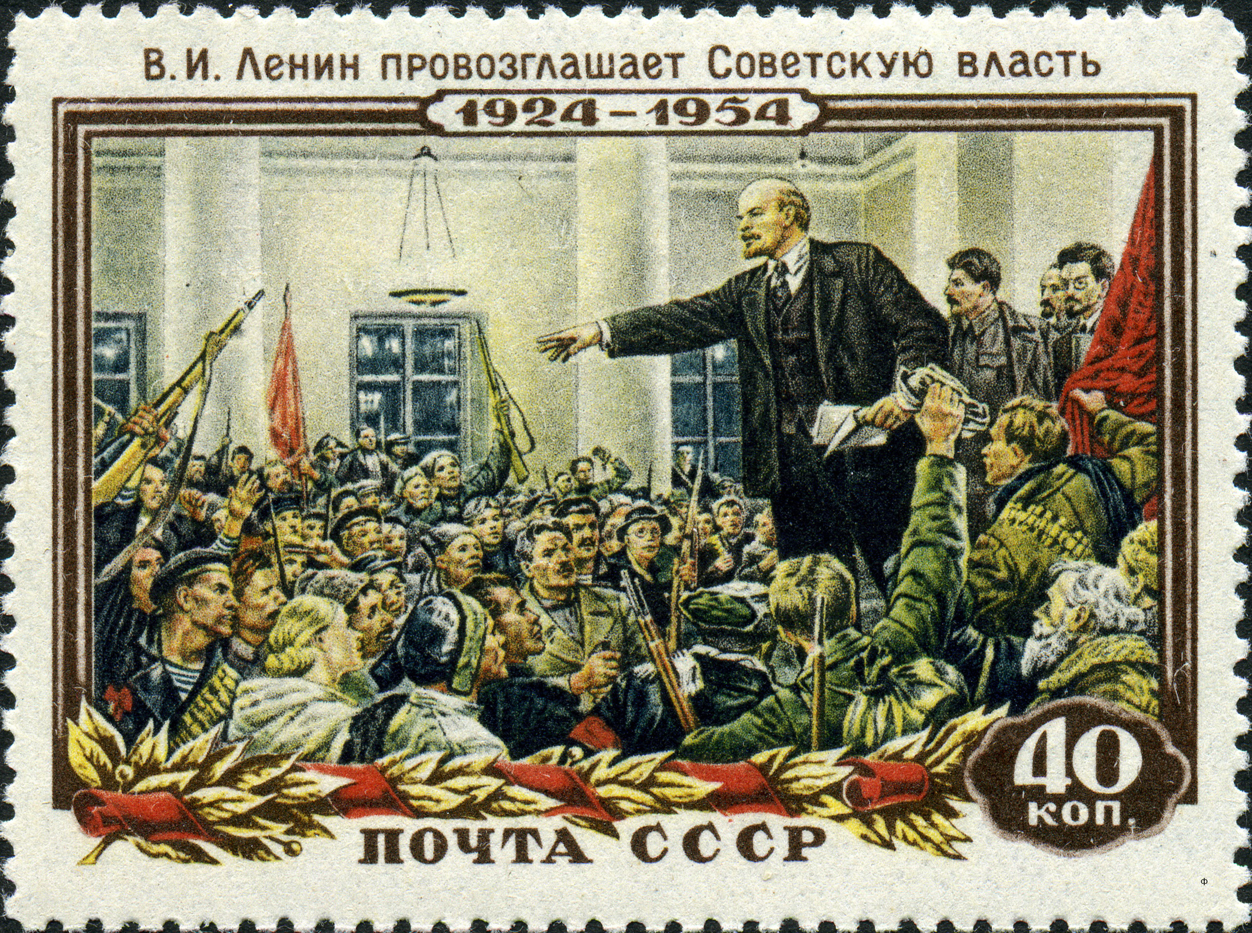 Stamp of the USSR. Painter Serov, "Lenin proclaims the Soviet power" (with Stalin), 1954